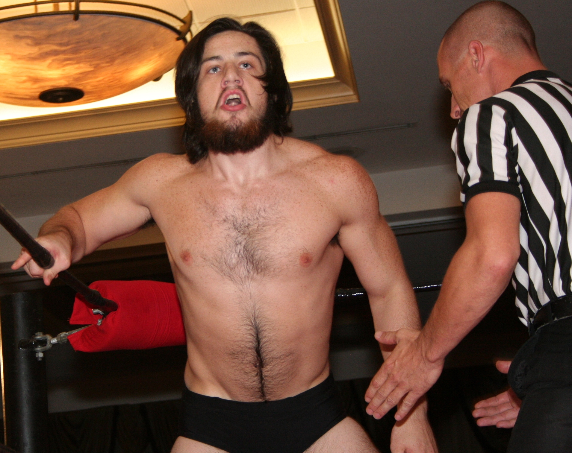 Trevor Lee in august 2013 during Mid-Atlantic FanFest.